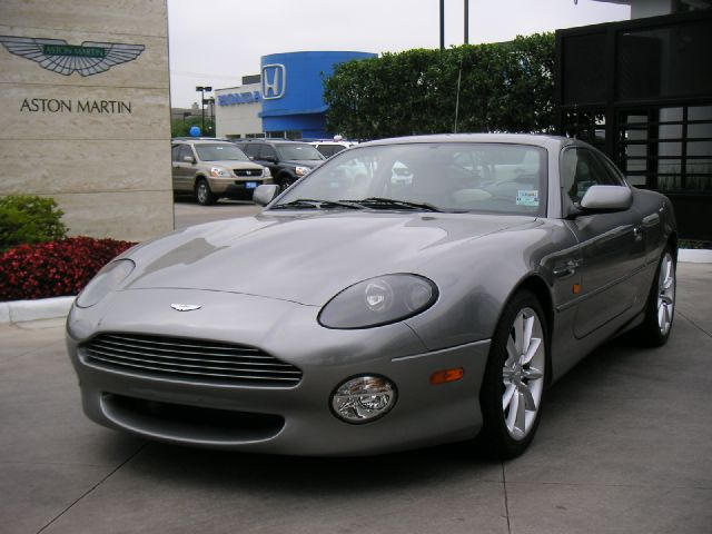 2001 Aston Martin DB7 Vantage Coupe